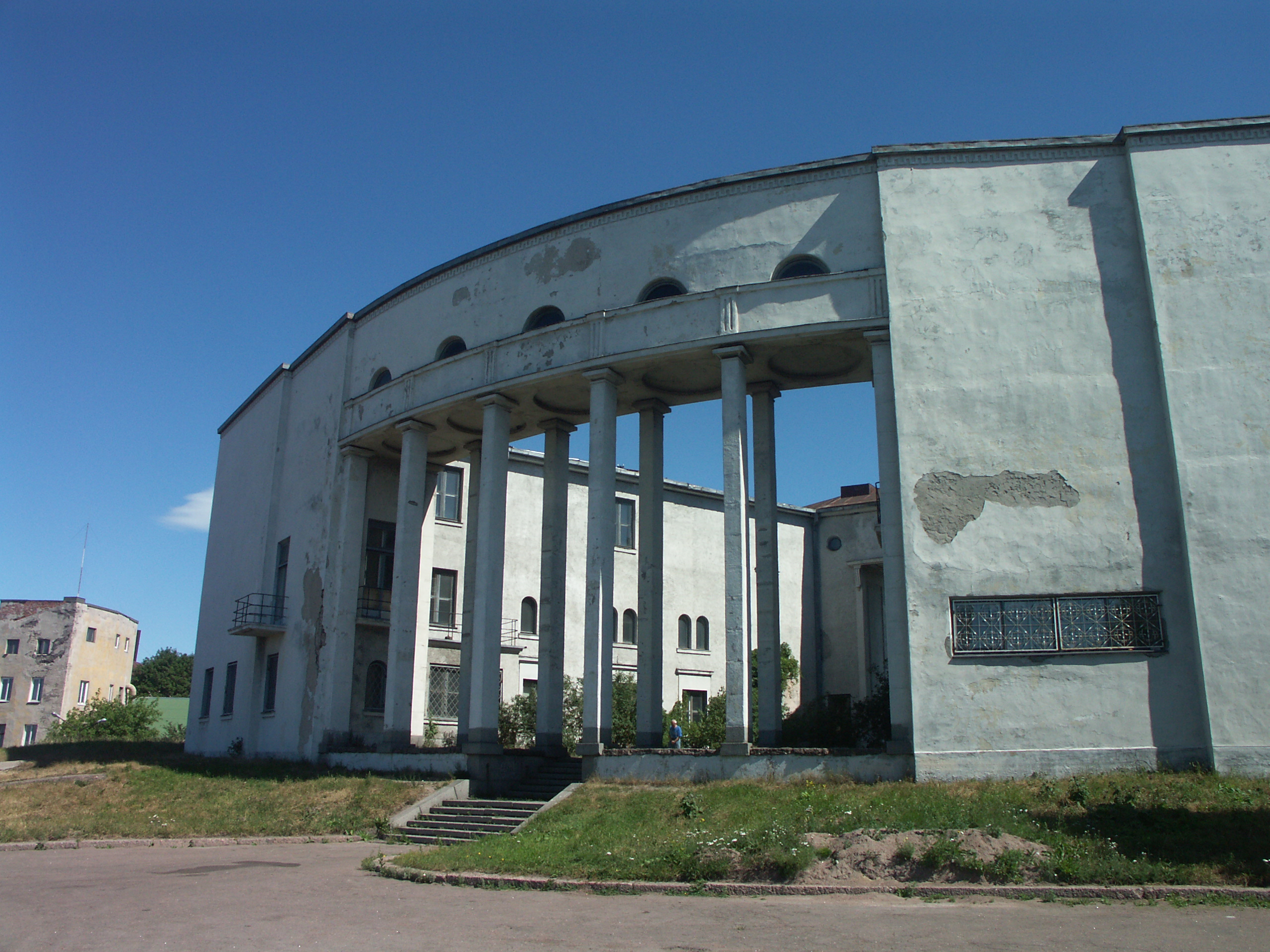 Former Viipuri Art Museum and Drawing School (1930) in Vyborg, Russia.